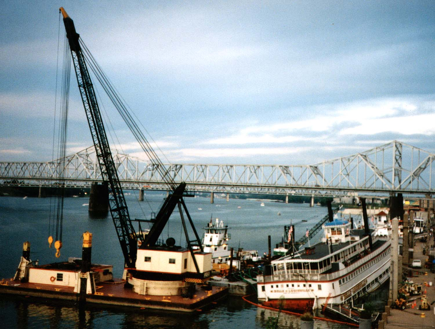 The Belle of Louisville in the process of being raised after being sunk at the pier in Louisville, Kentucky, USA. The U.S. Army Corps of Engineers assisted in the salvage with a floating crane.